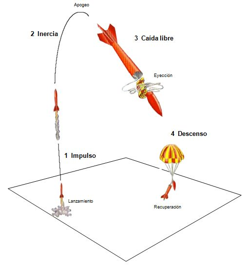 Basic model rocket. Flying steps.